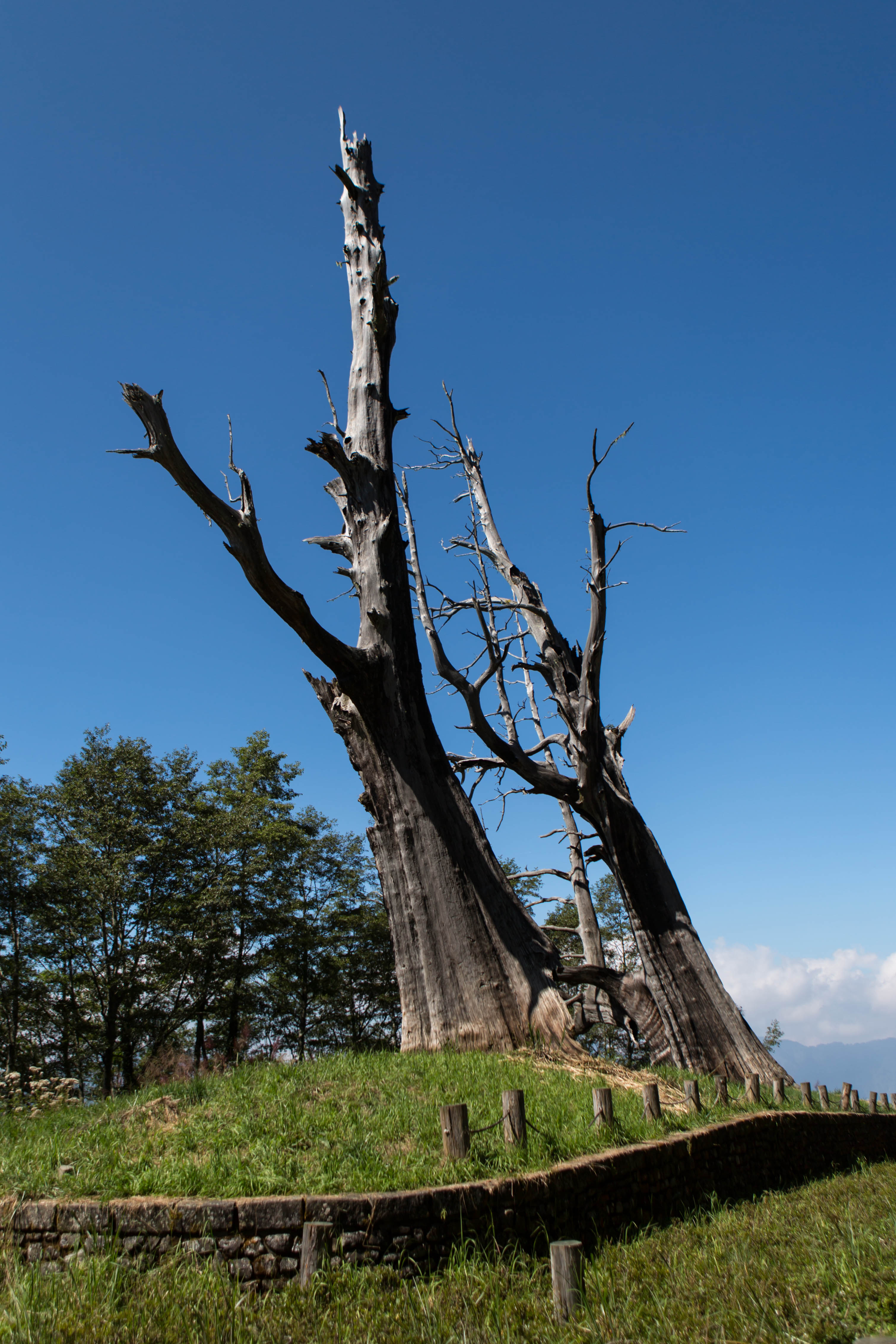 These two red cypress trees are the remains of the forest fire in 1963, which resemble a couple standing proudly by the road. Infrastructures available include parking lot and mobile lavatories.